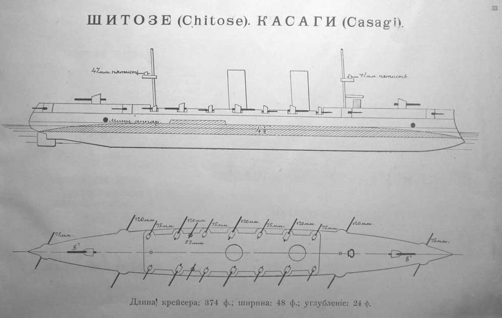 IJN Casagi IJN Chitose